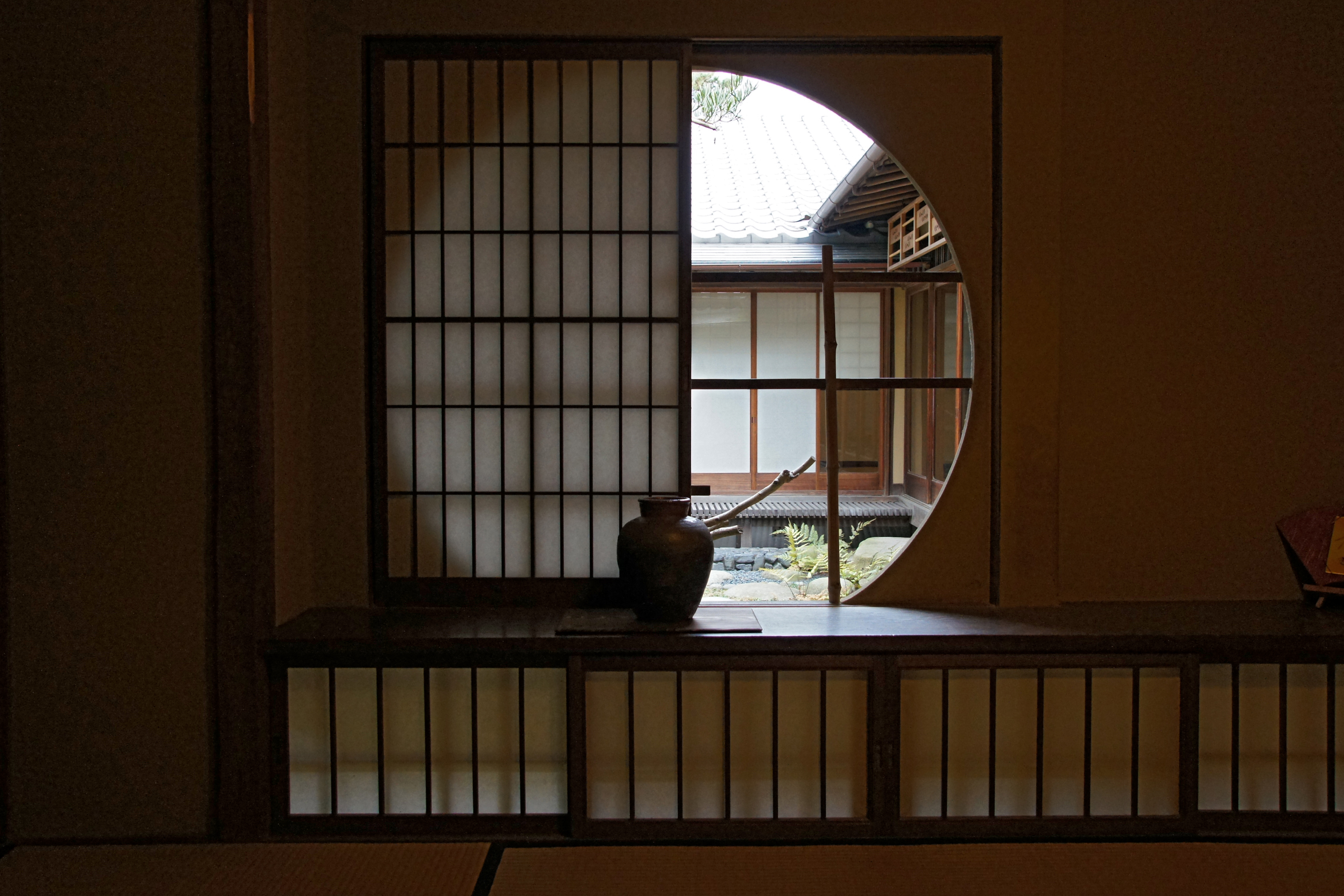 Former Kinoshita House in Kobe, Hyogo prefecture, Japan